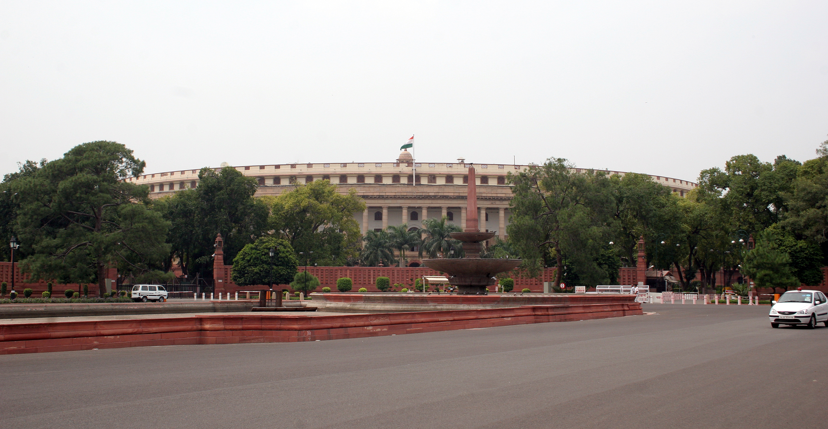 Sansad Bhavan, parliament building of India.